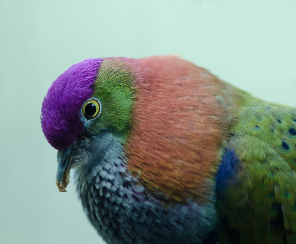 A male Superb Fruit Dove (also known as the Purple-crowned Fruit Dove) at Burgers Zoo, Arnhem, Netherlands. It has got some food on its beak.